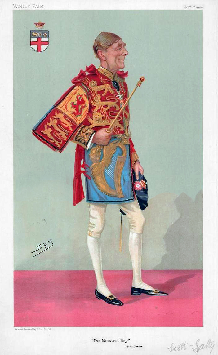 Caricature of Sir Alfred Scott Scott-Gatty, officer of arms, in his ceremonial dress. Caption read "The Minstrel Boy". (Altered coloration)